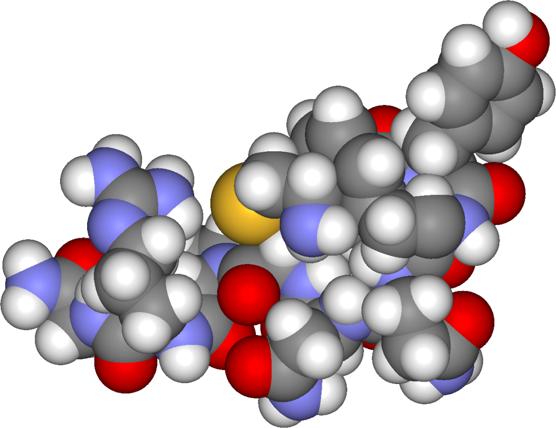 Spacefilling model of arginine vasopressin. Created using Accelrys DS Visualizer Pro 1.6 and the GIMP.